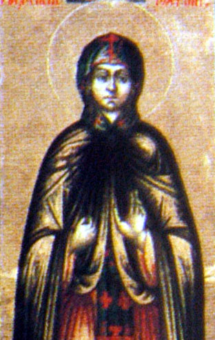 St.Theodosia (ortodox icon)